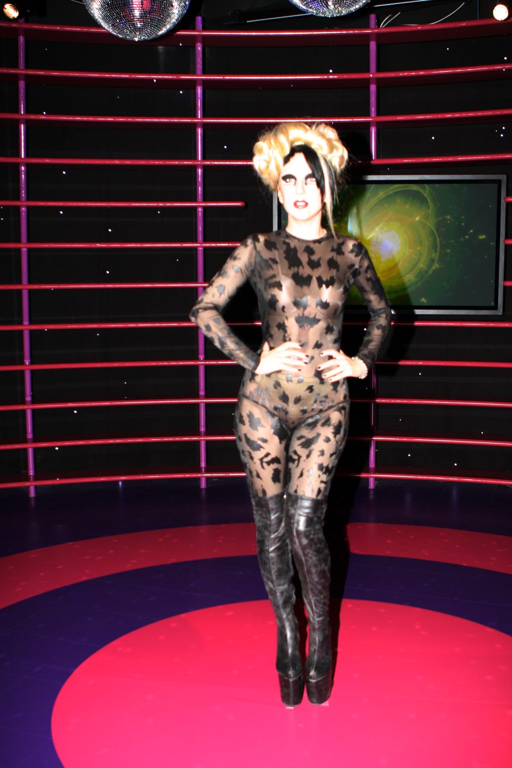 Wax Sculpture of at Lady Gaga Madame Tussauds Sydney